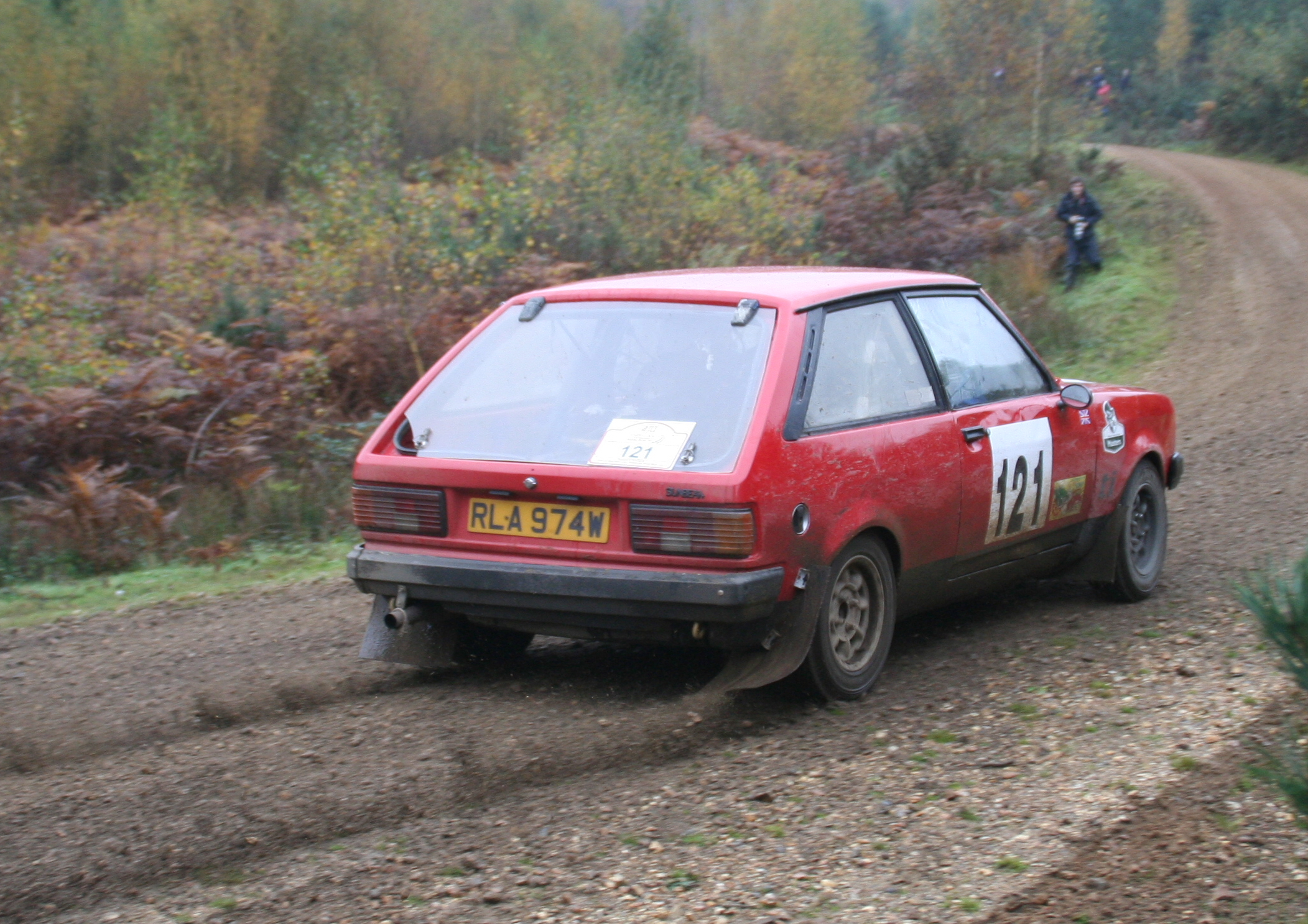 Talbot Sunbeam TI 1600 CC Driver - Dave Dockree Co Driver - Nick Davies Club - Farnborough DMC